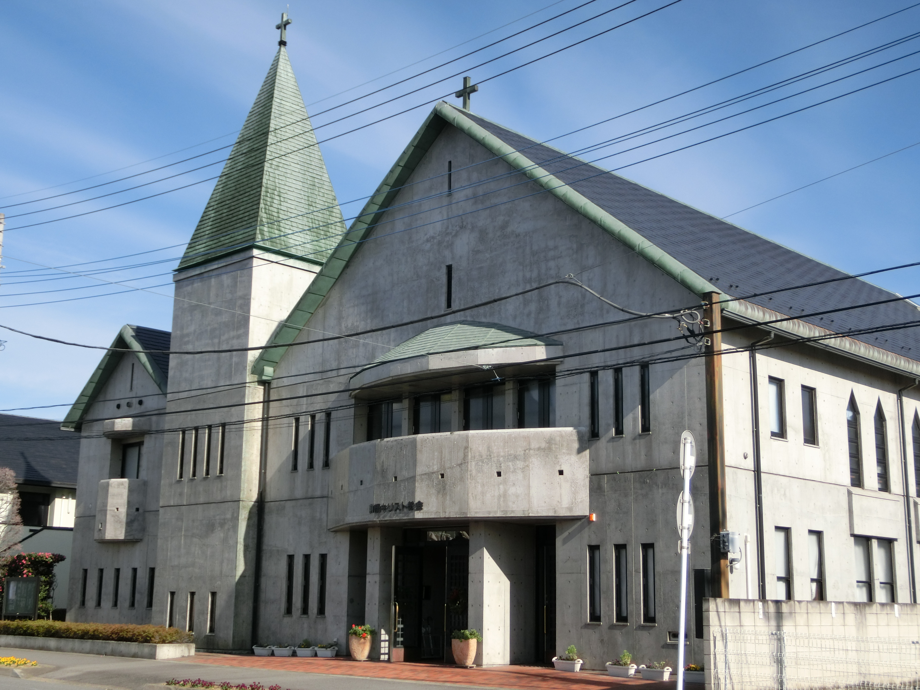 Maebashi Christ Church